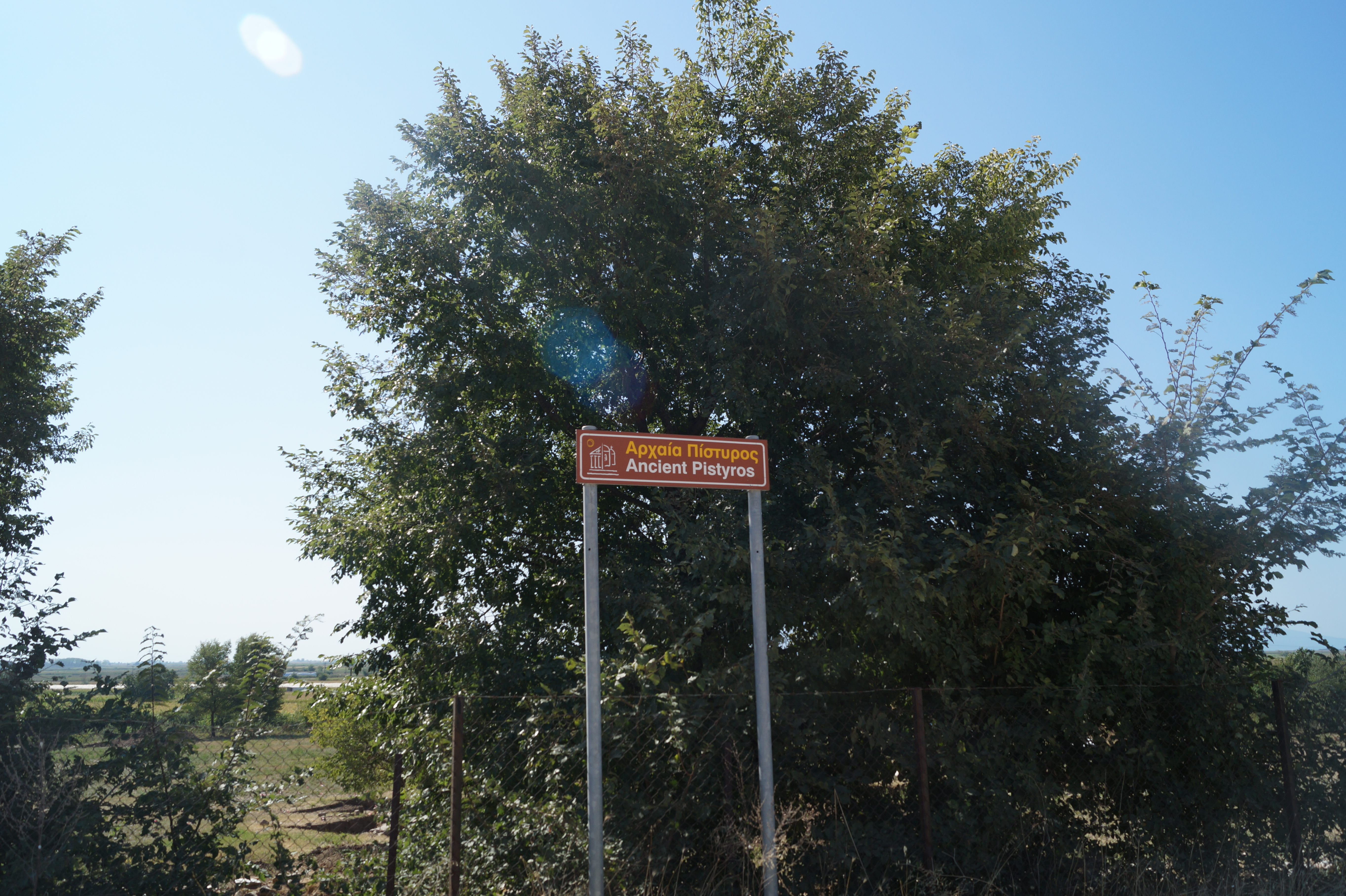 Pontolivado, Makedonia, Greece: Archaeological site of Pistyros.